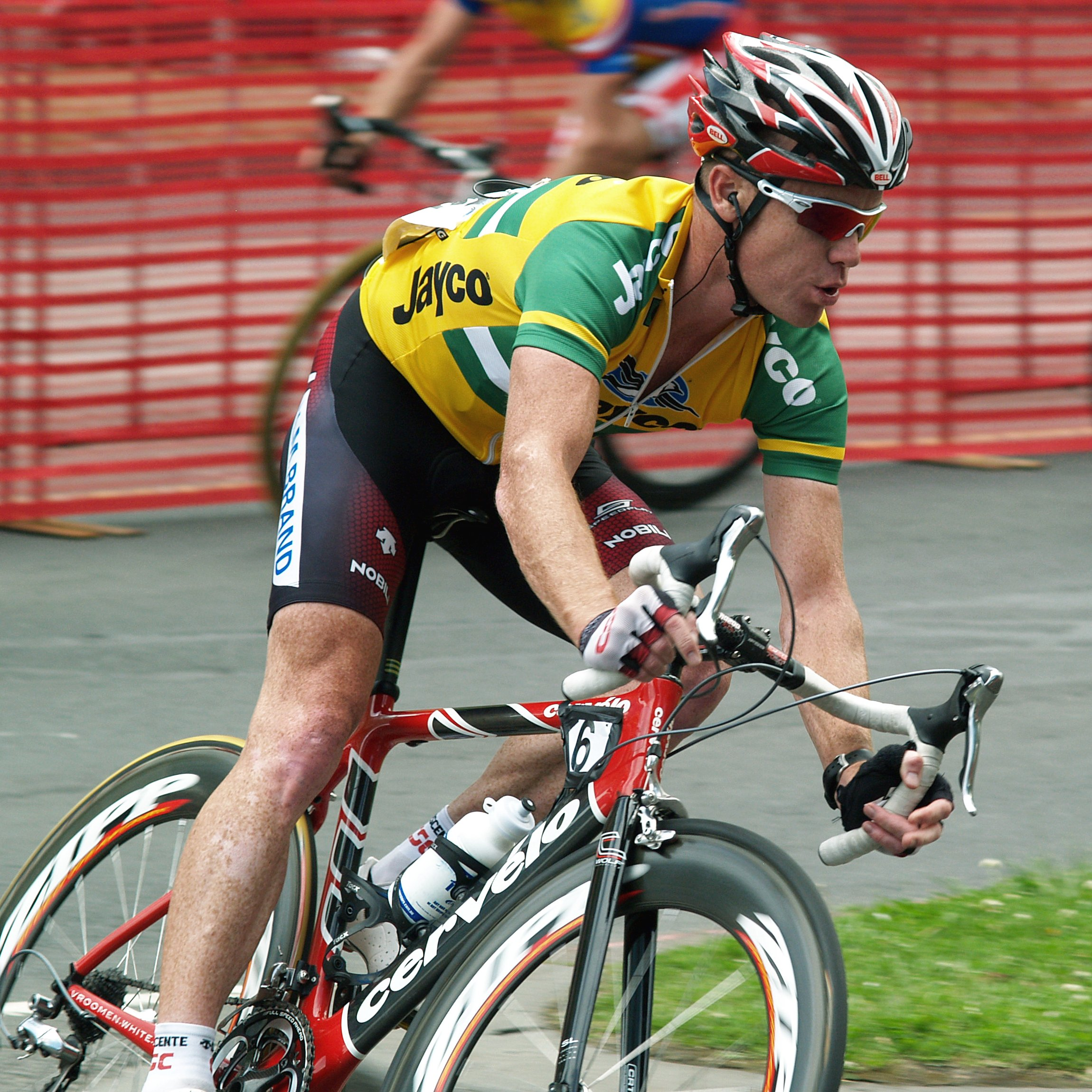 Australian cyclist Stuart O'Grady (Team CSC, riding for the Jayco Australian National Team) during Stage 7 of the 2007 Herald Sun Tour, Melbourne, Australia.